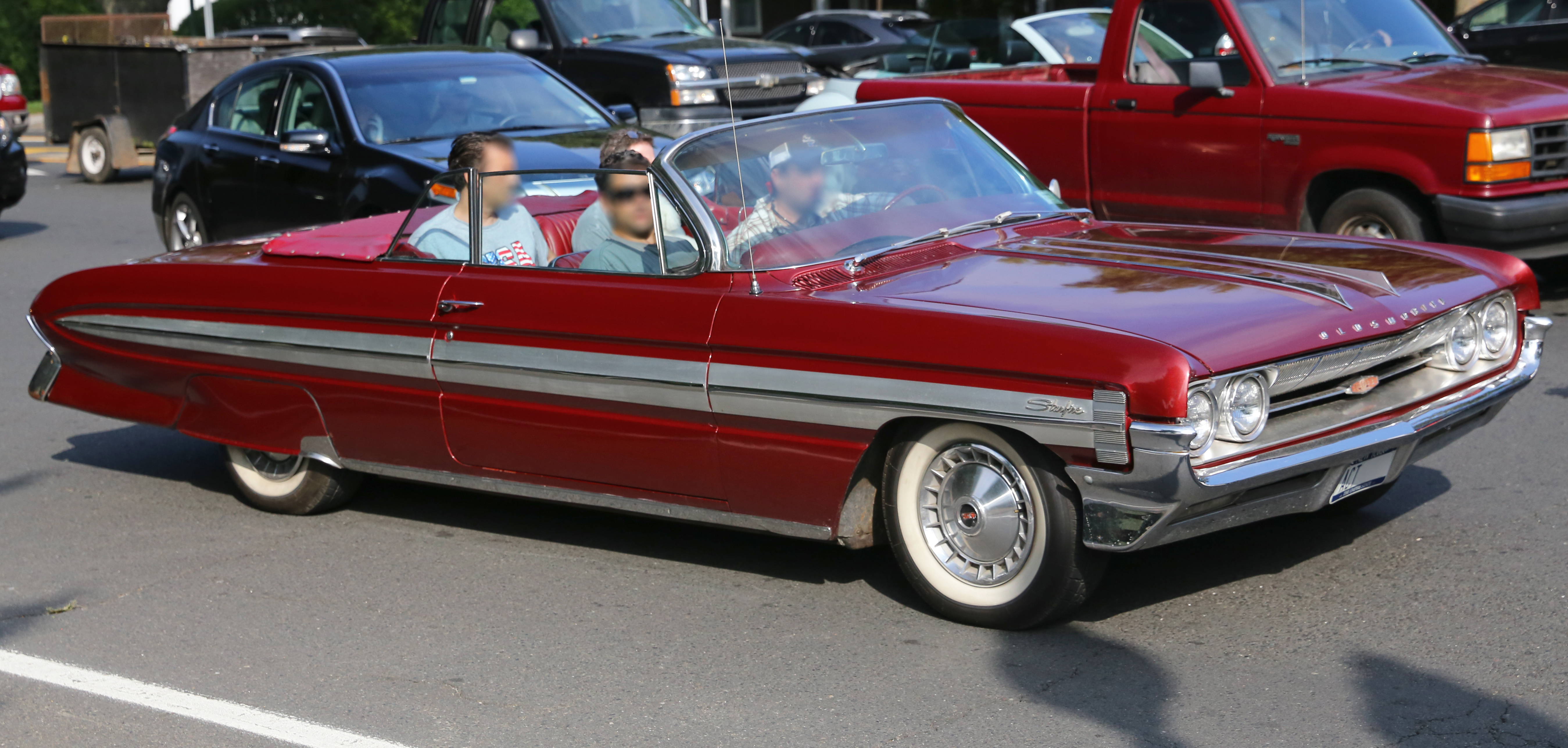 A 1961 Oldsmobile Starfire convertible in East Hampton, NY.